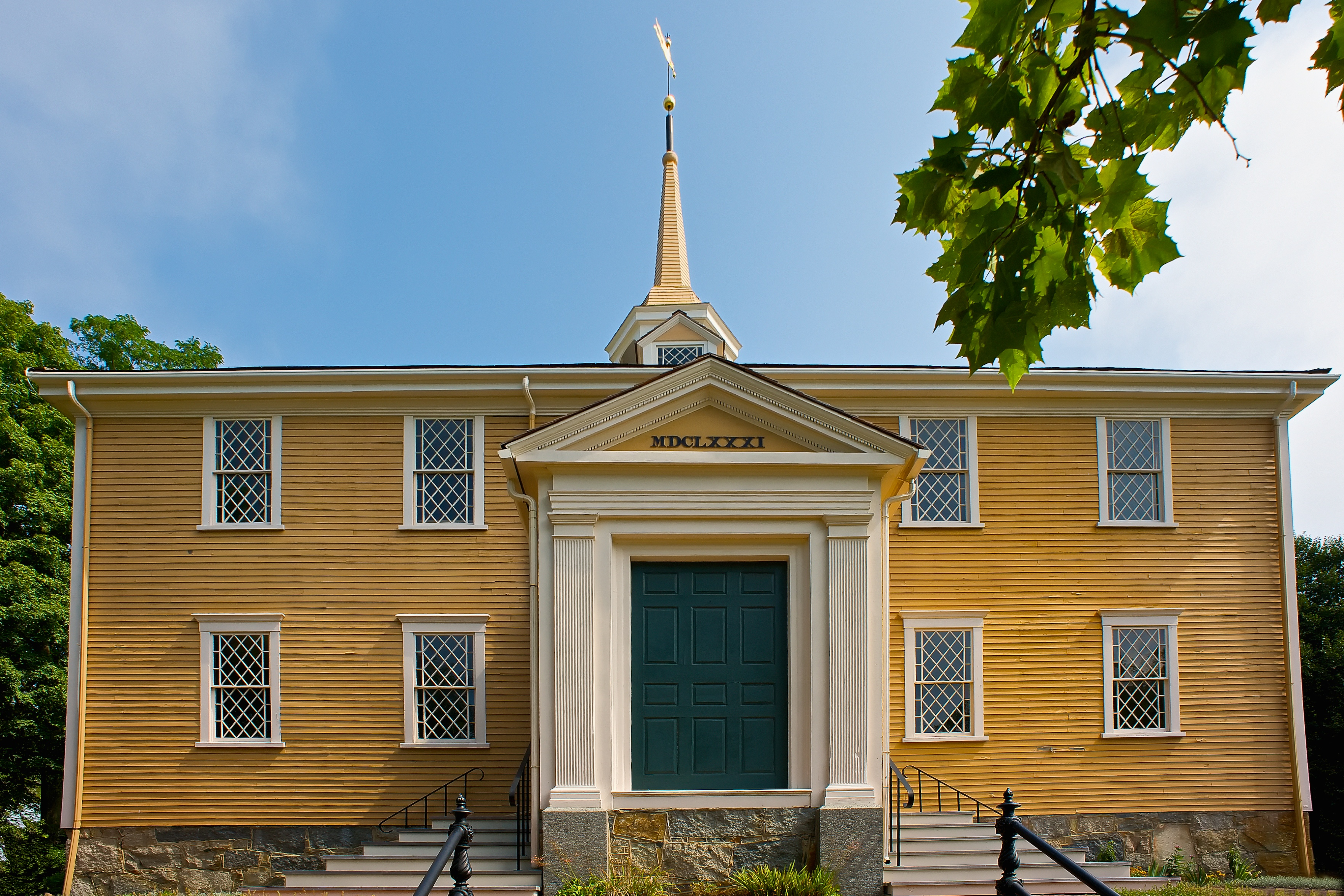 Entrance to Old Ship Church, Hingham, Massachusetts